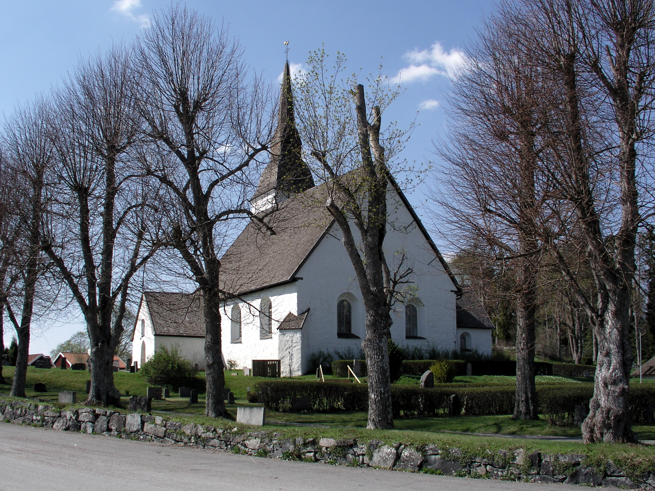 Åkers kyrka. The picture was taken the 7th of May 2006 by Håkan Svensson (Xauxa). Diocese of Strängnäs, Sweden.